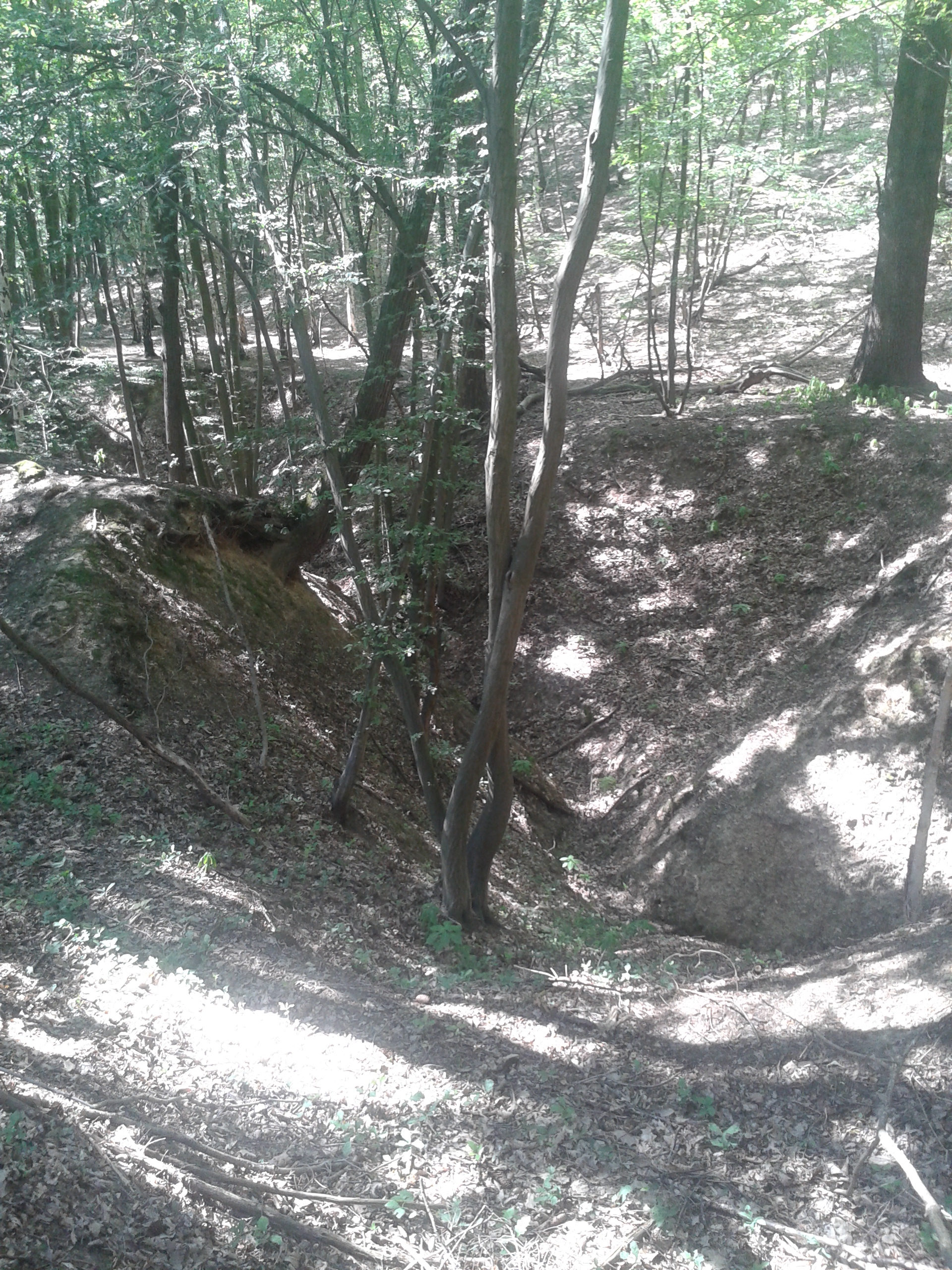 Kálek valley between the Šance and Čihadlo hills through which the Závistský stream flows. The valley was probably named by the wild boar puddles.